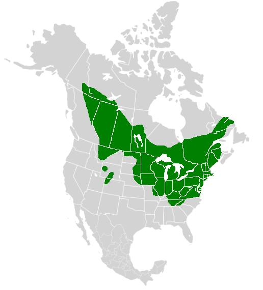 Range map of the Meadow Fritillary (Boloria bellona) in North America.